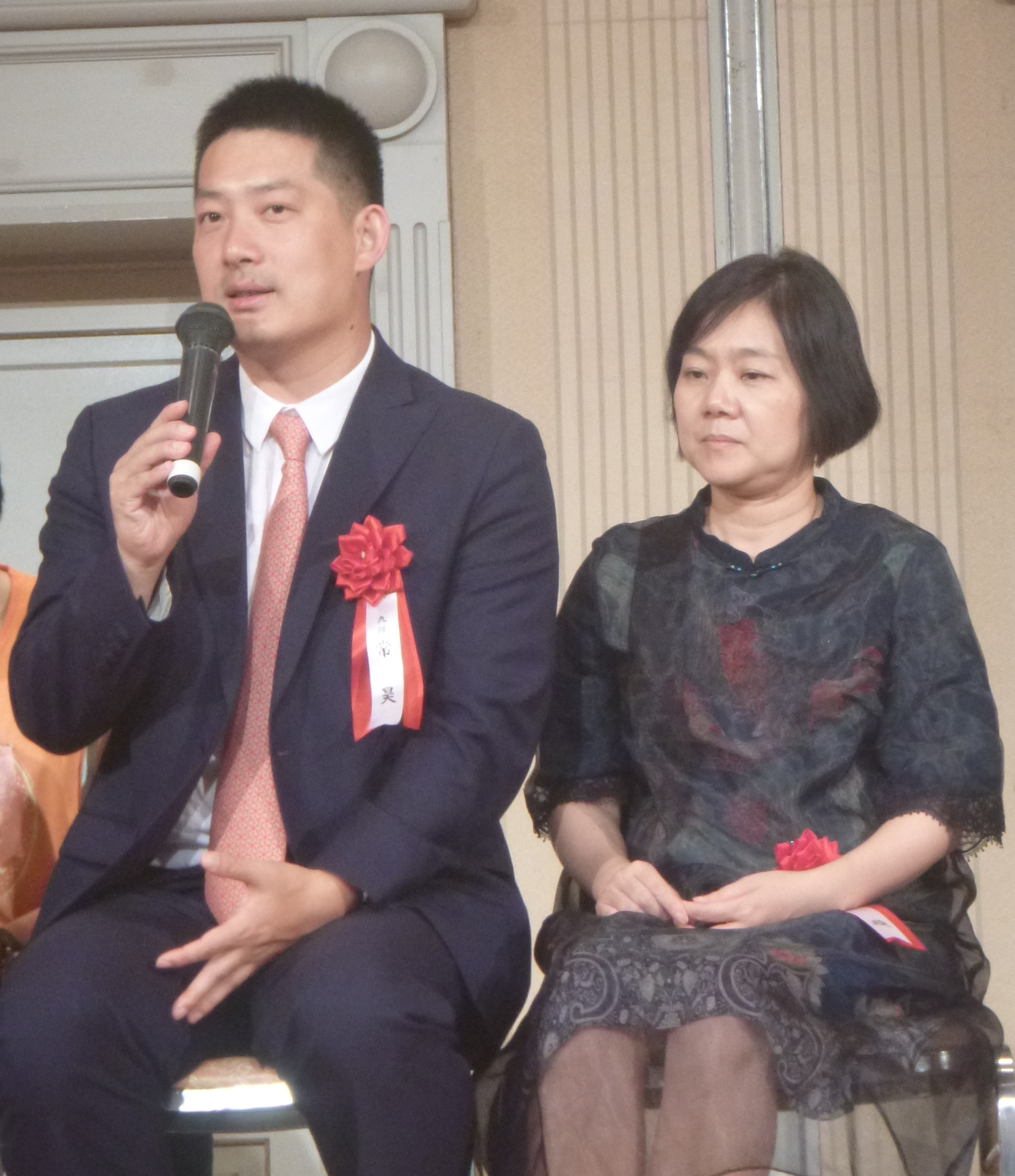 Chinese go player Chang Hao (left) and Zhang Xuan (right) at the talk session of World Go Festival in Takarazuka, Hyōgo, Japan.